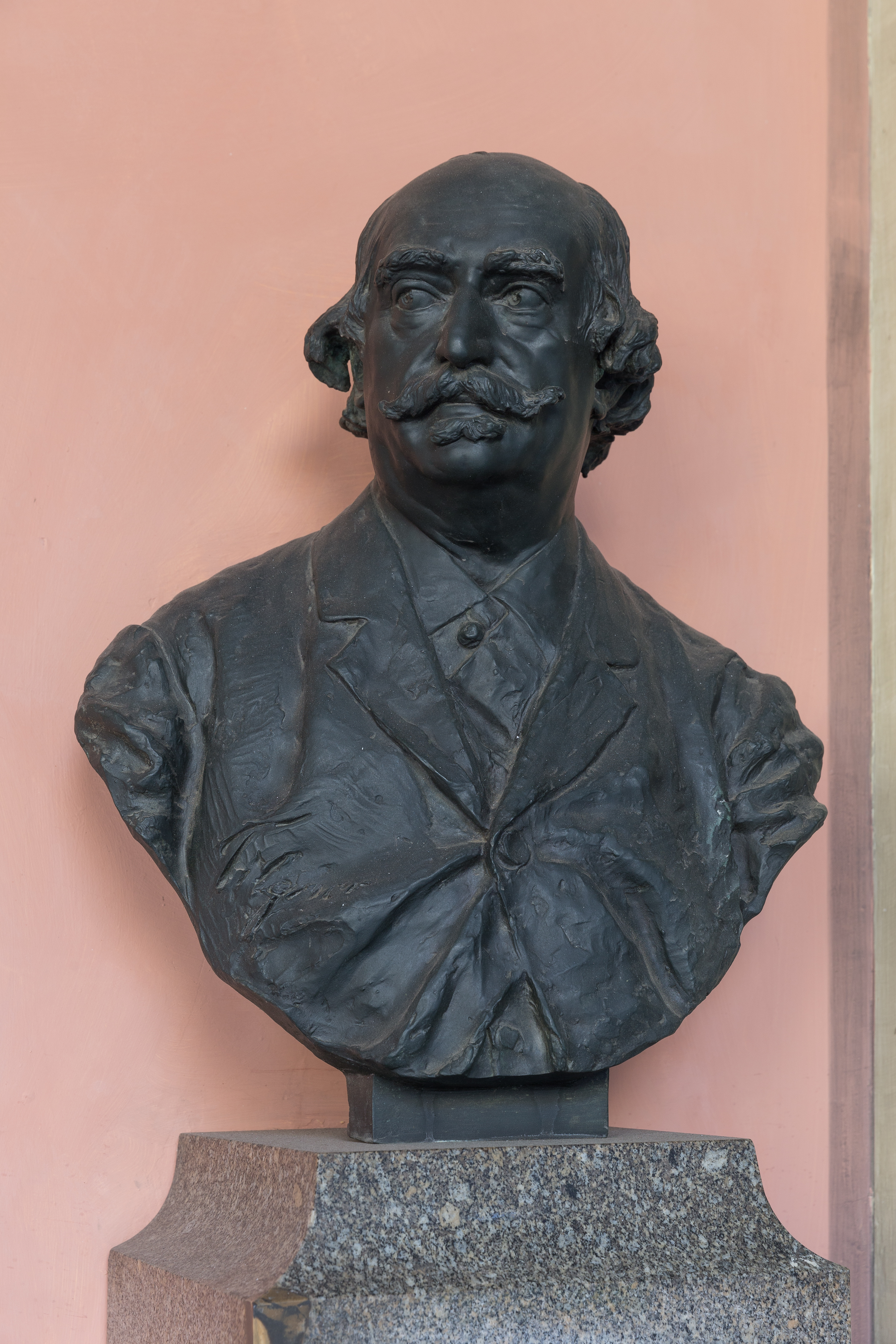 Eduard Hanslick (1825-1904), bust (bronze) in the Arkadenhof of the University of Vienna, (Maisel# 46). Artist: Viktor Tilgner (1844-1896) , unveiled 1913 Anton Hanak (1875–1934) DescriptionAustrian sculptorDate of birth/death 22 March 1875 7 January 1934 Location of birth/death Brno ViennaWork location Vienna Authority control : Q32370 VIAF: 72188567 ISNI: 0000 0000 6678 7070 ULAN: 500054670 LCCN: n84188565 Open Library: OL1838797A WorldCat creator QS:P170,Q32370